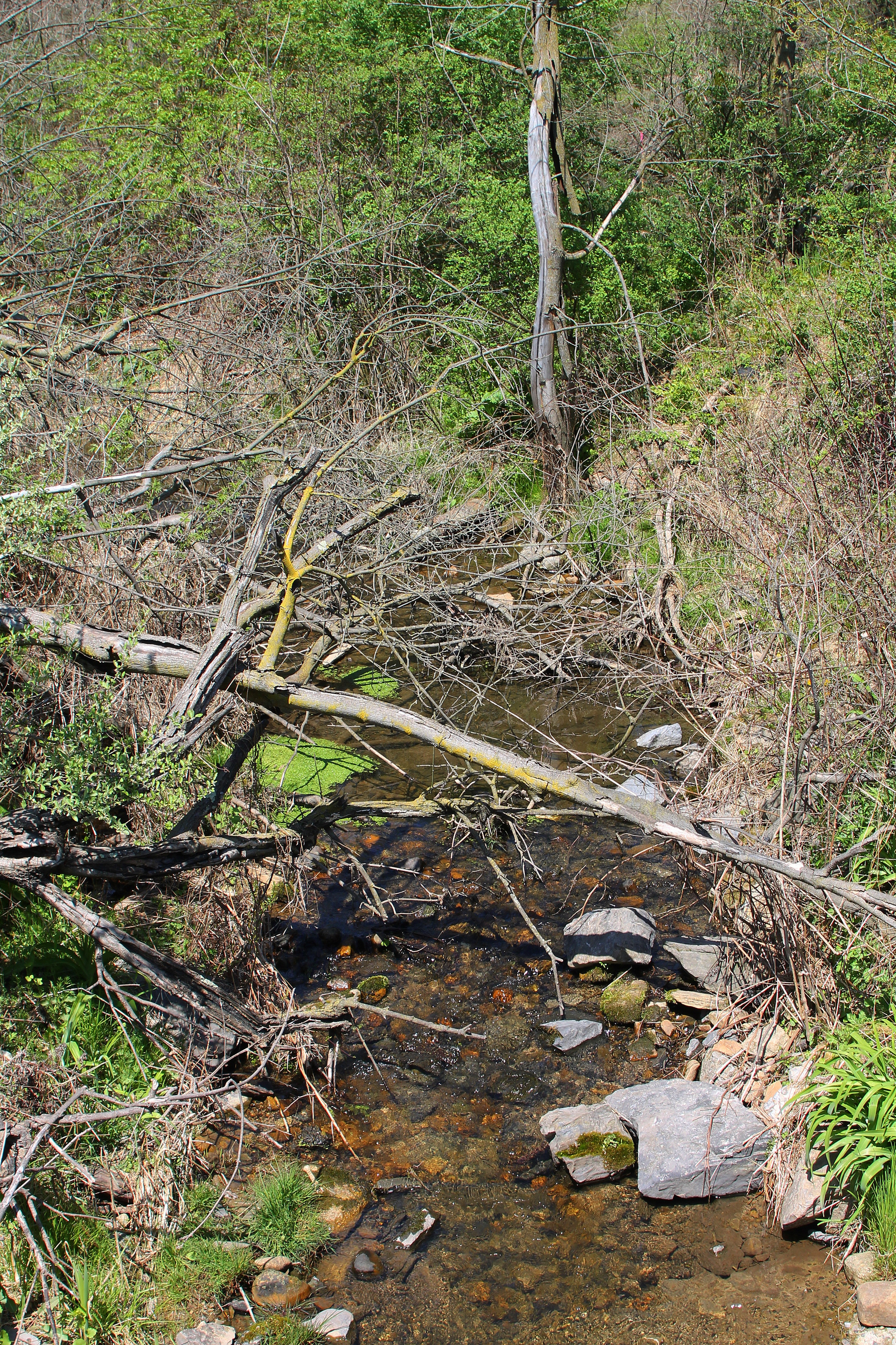 Turkey Run, a tributary of the West Branch Susquehanna River in Lycoming County, Pennsylvania looking upstream in its lower reaches.